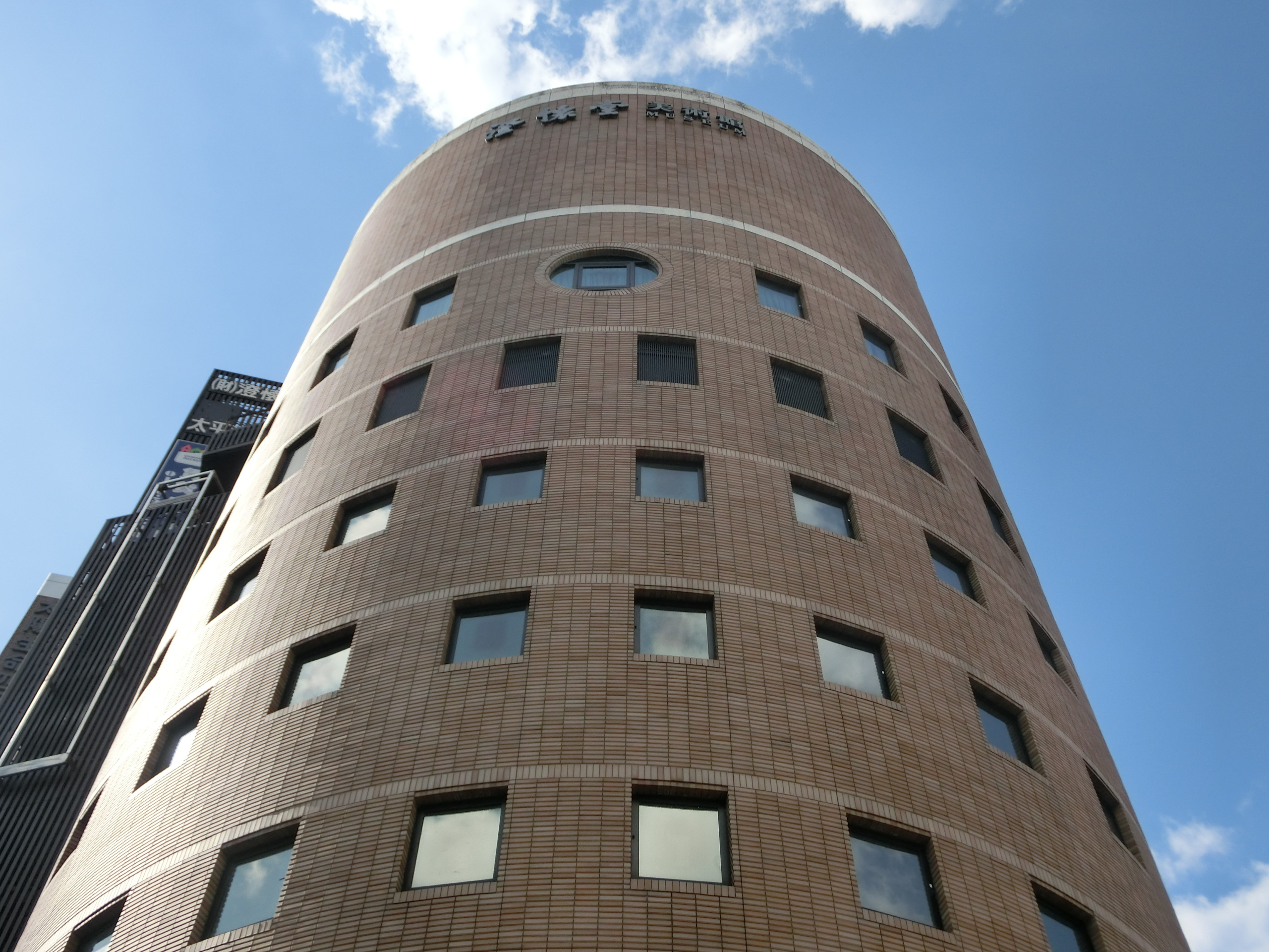 Chokaido Museum